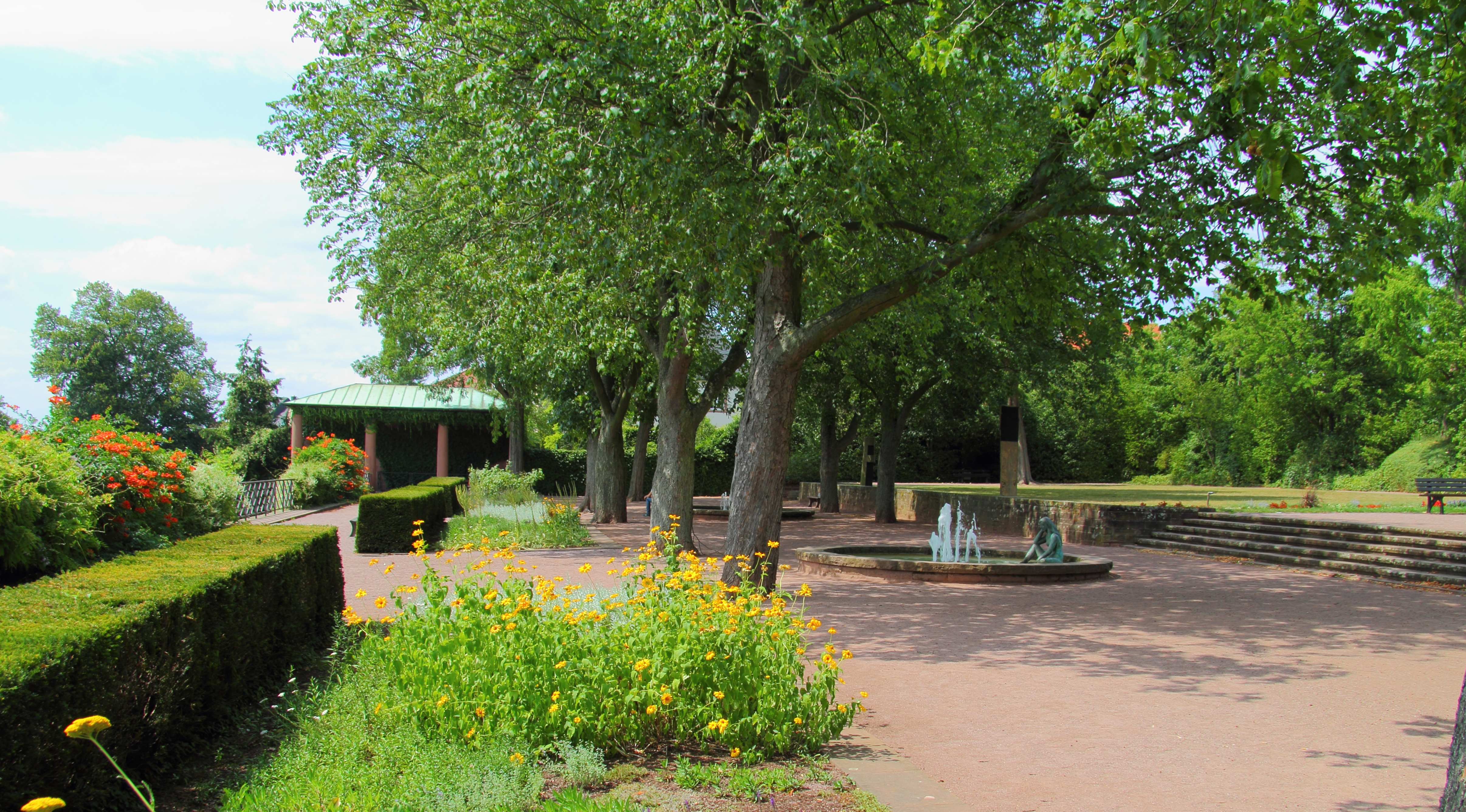 Germany: Saint Germain Terrace